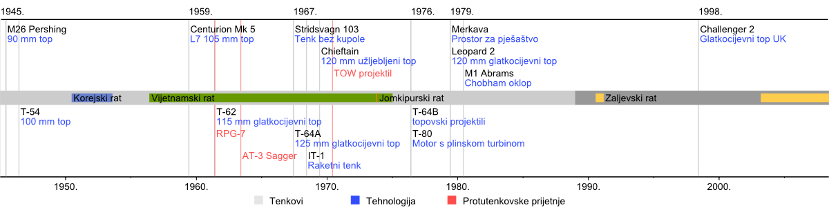 Post WWII tank timeline with wars - croatian